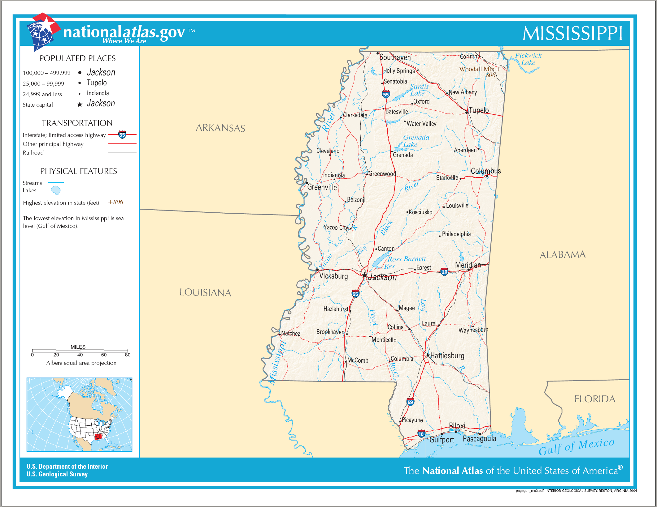 Map of Mississippi